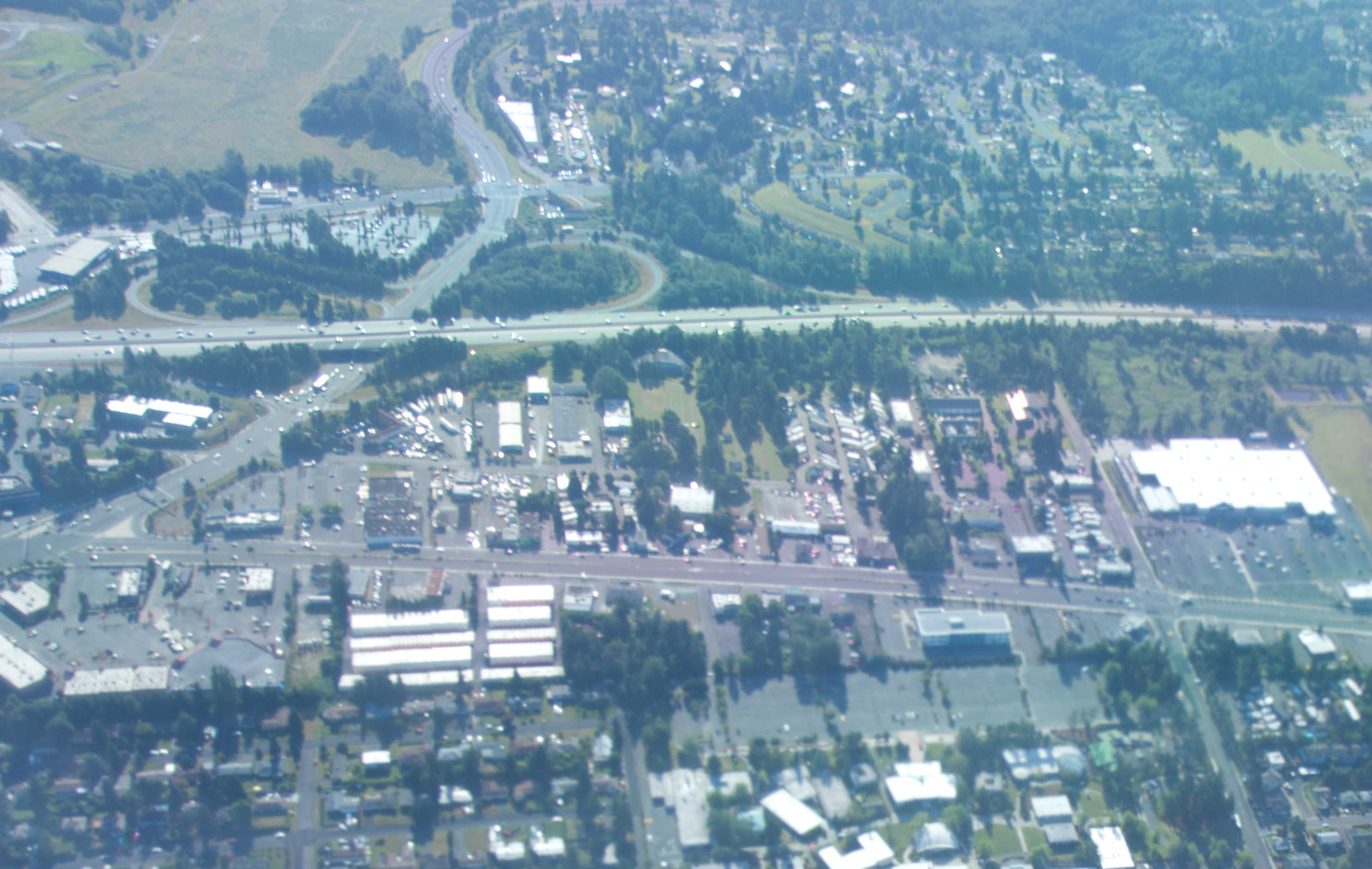 The partial cloverleaf interchange between Interstate 5 and Washington State Route 516 between Des Moines and Kent in King County, Washington. Washington State Route 99 runs parallel to Interstate 5 in the center of the image.